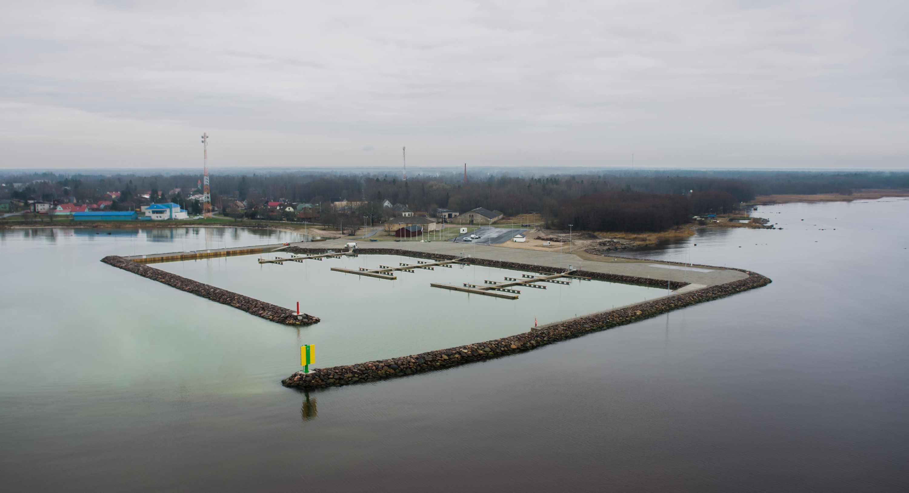 Kärdla harbour